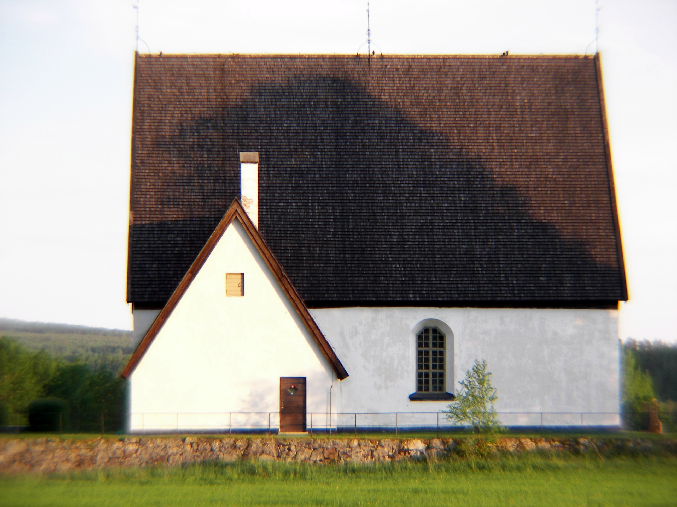 Överlännäs church, Sweden